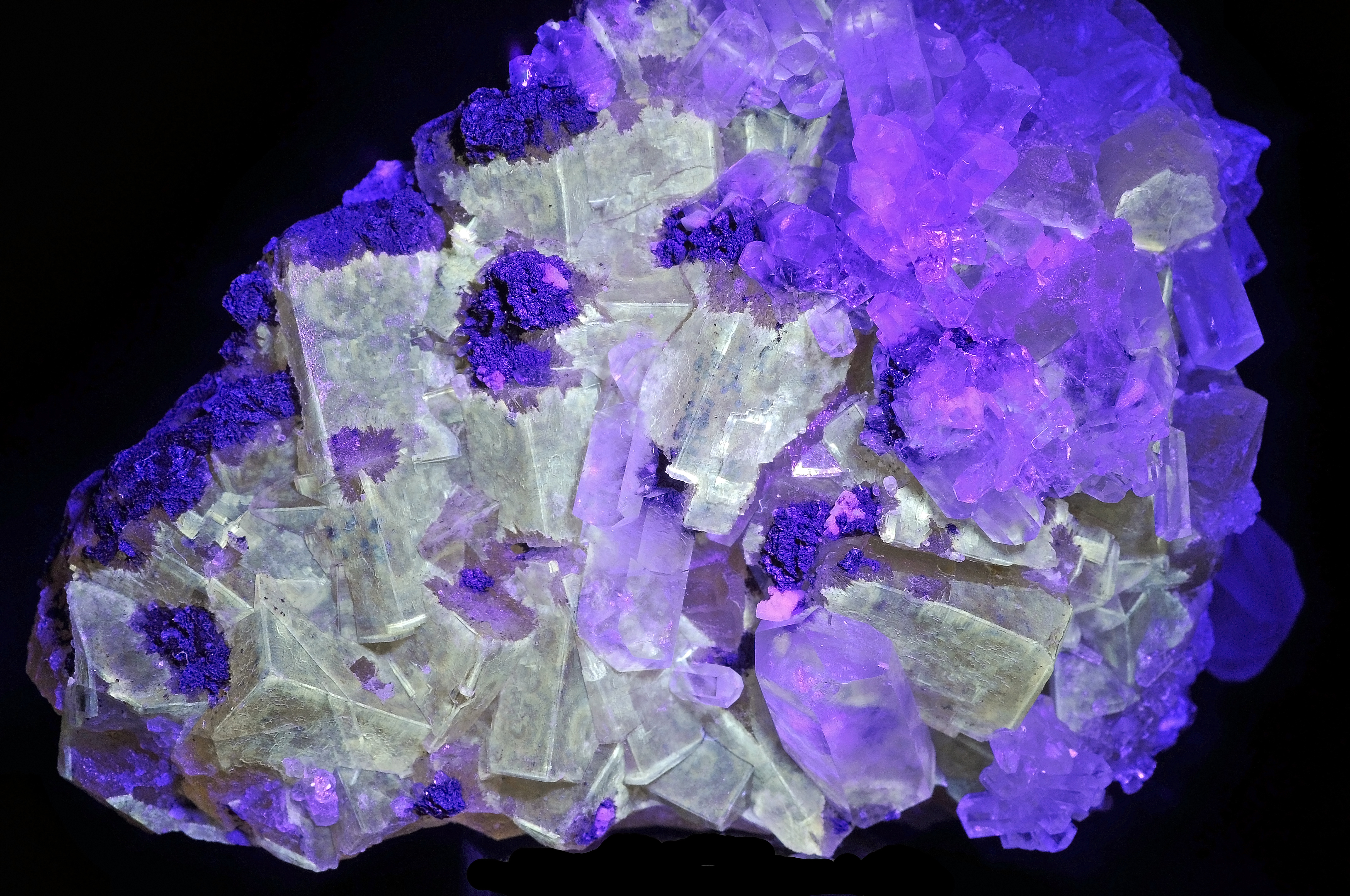 crystals of calcite, crystals of fluorite with UV : Joplin Field, Tri-State District, Jasper Co., Missouri, USA